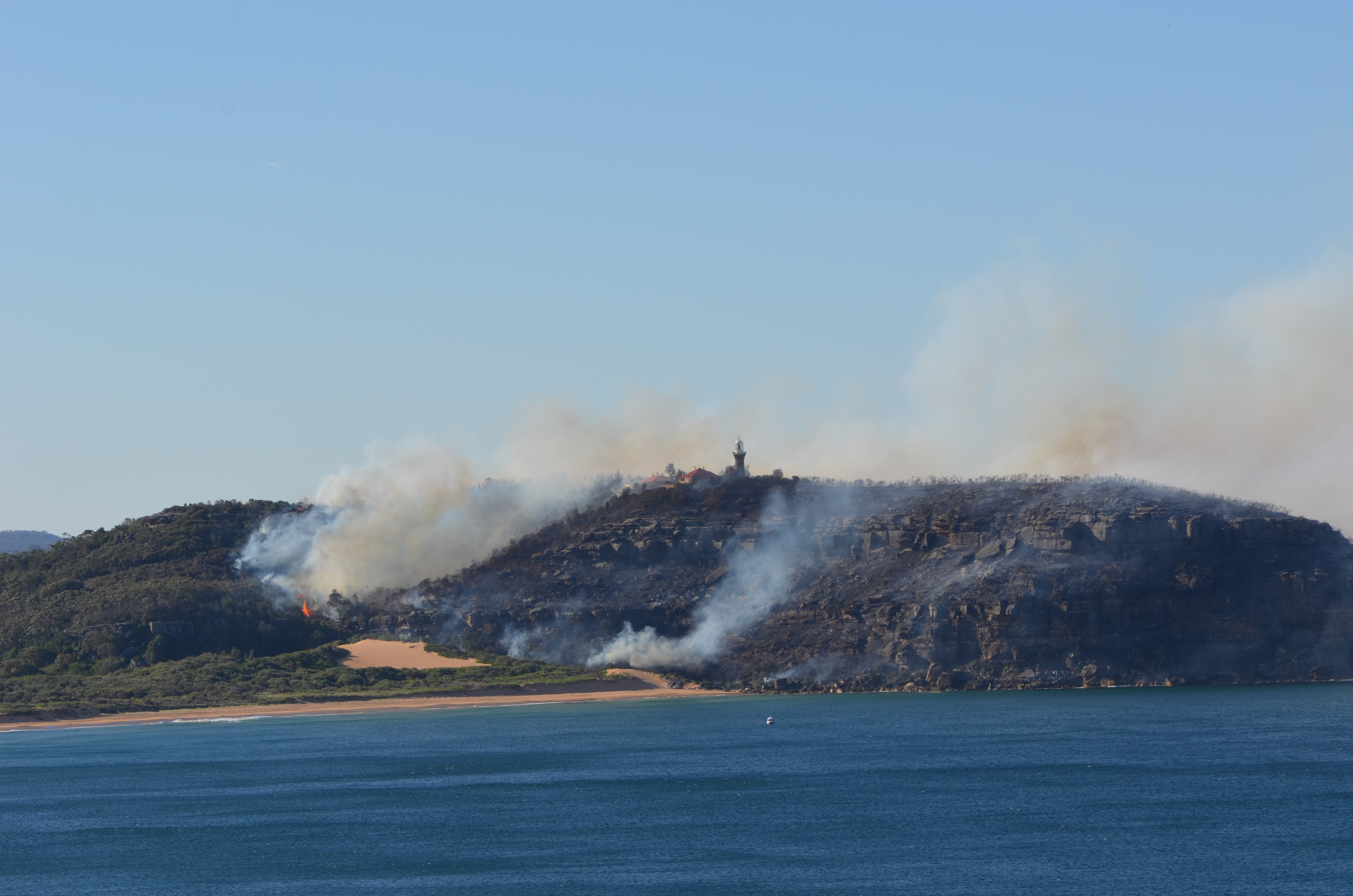 Bushfire on Barrenjoey, Palm Beach, Sydney, New South Wales 28, September, 2013, probably lit by a vandal